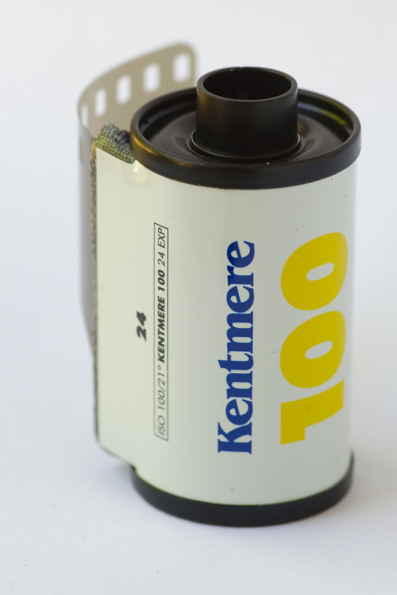 A roll of Kentmere 100 Black and White film, expiring in July 2021, DX cartridge barcode: 017702.